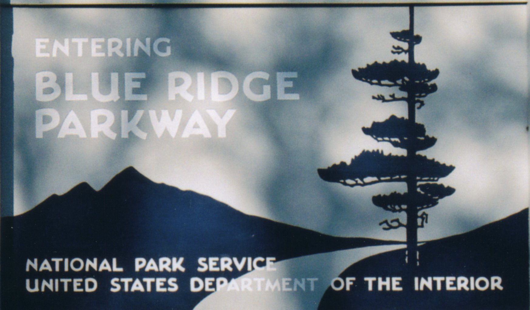 NPS Blue Ridge Parkway sign at the southern end of the parkway near entrance to Great Smoky Mountains National Park. Photo taken by me, April 2006.